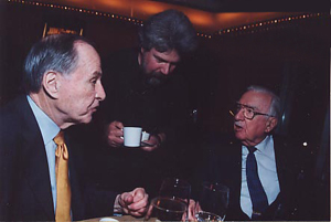 Jim McKay, Brian Keane and Walter Cronkite in New York 2003